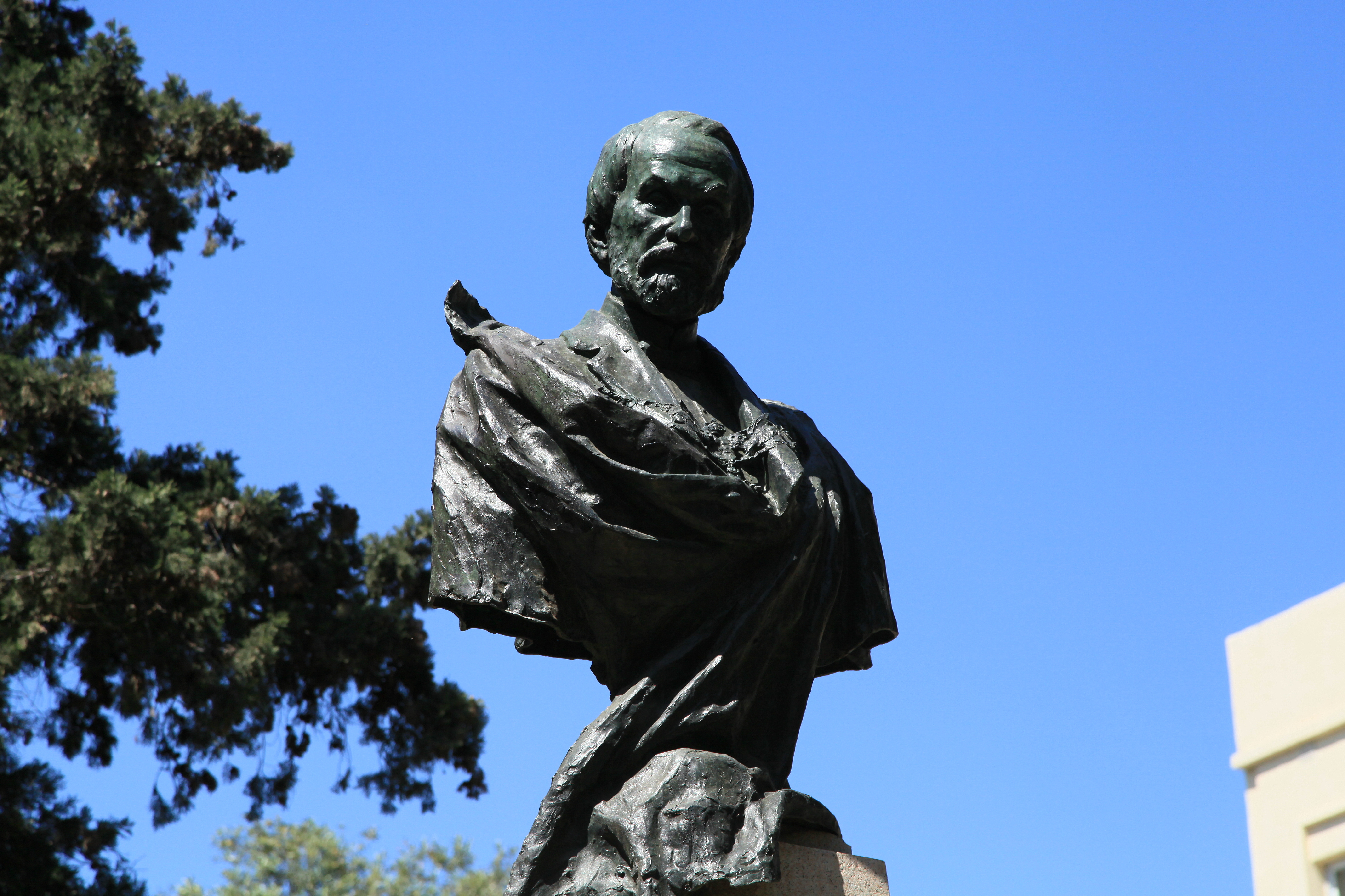 The Mall, Triq Sarria in Floriana, Malta